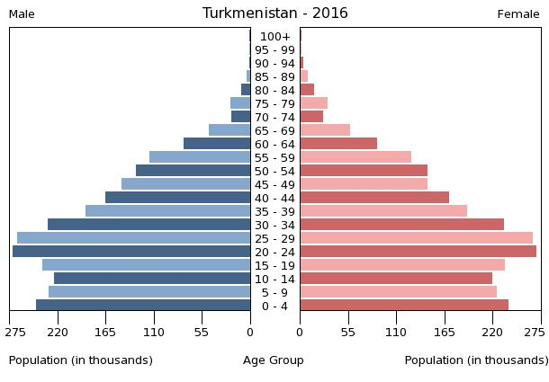 The population pyramid of Turkmenistan illustrates the age and sex structure of population and may provide insights about political and social stability, as well as economic development. The population is distributed along the horizontal axis, with males shown on the left and females on the right. The male and female populations are broken down into 5-year age groups represented as horizontal bars along the vertical axis, with the youngest age groups at the bottom and the oldest at the top. The shape of the population pyramid gradually evolves over time based on fertility, mortality, and international migration trends.